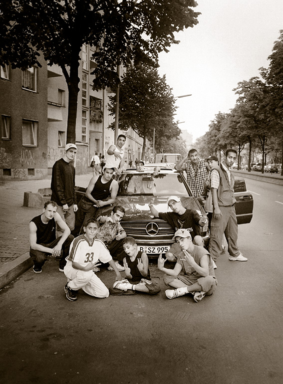 Berlin 1999